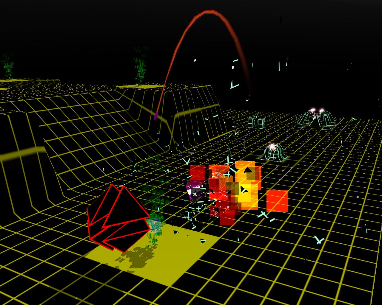 A screenshot of the Kernel Panic mod for Spring.